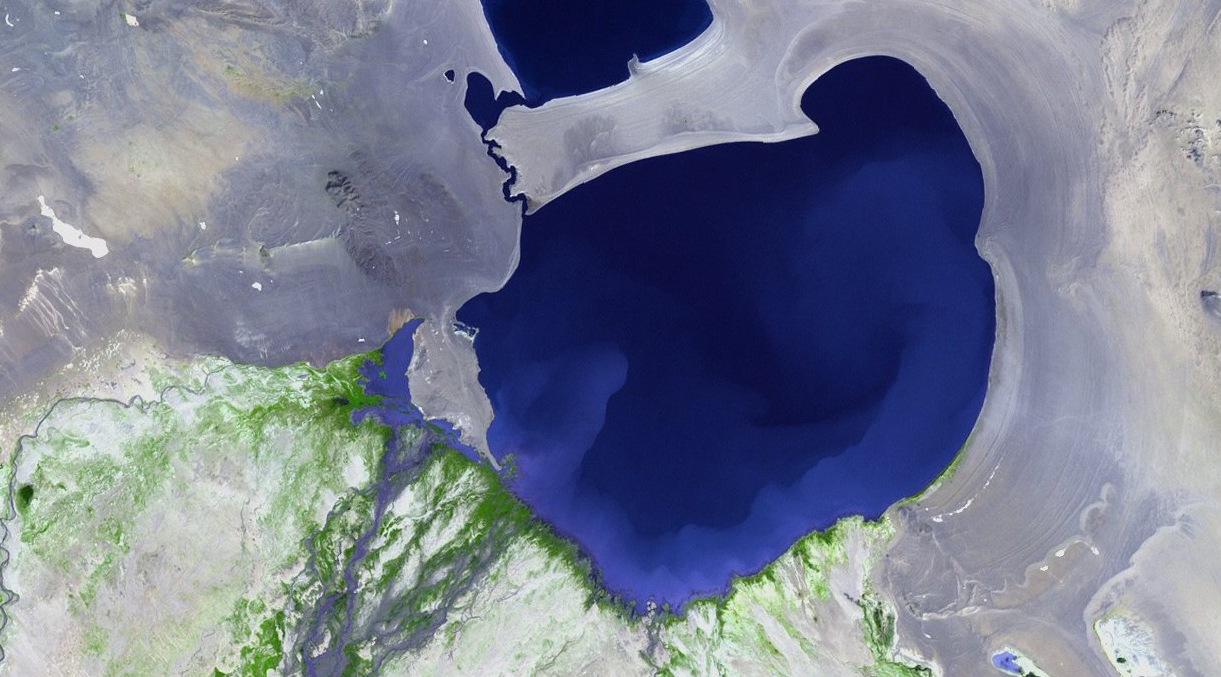 Khyargas-Nuur lake in Mongolia, Lamdsat-7 satellite image